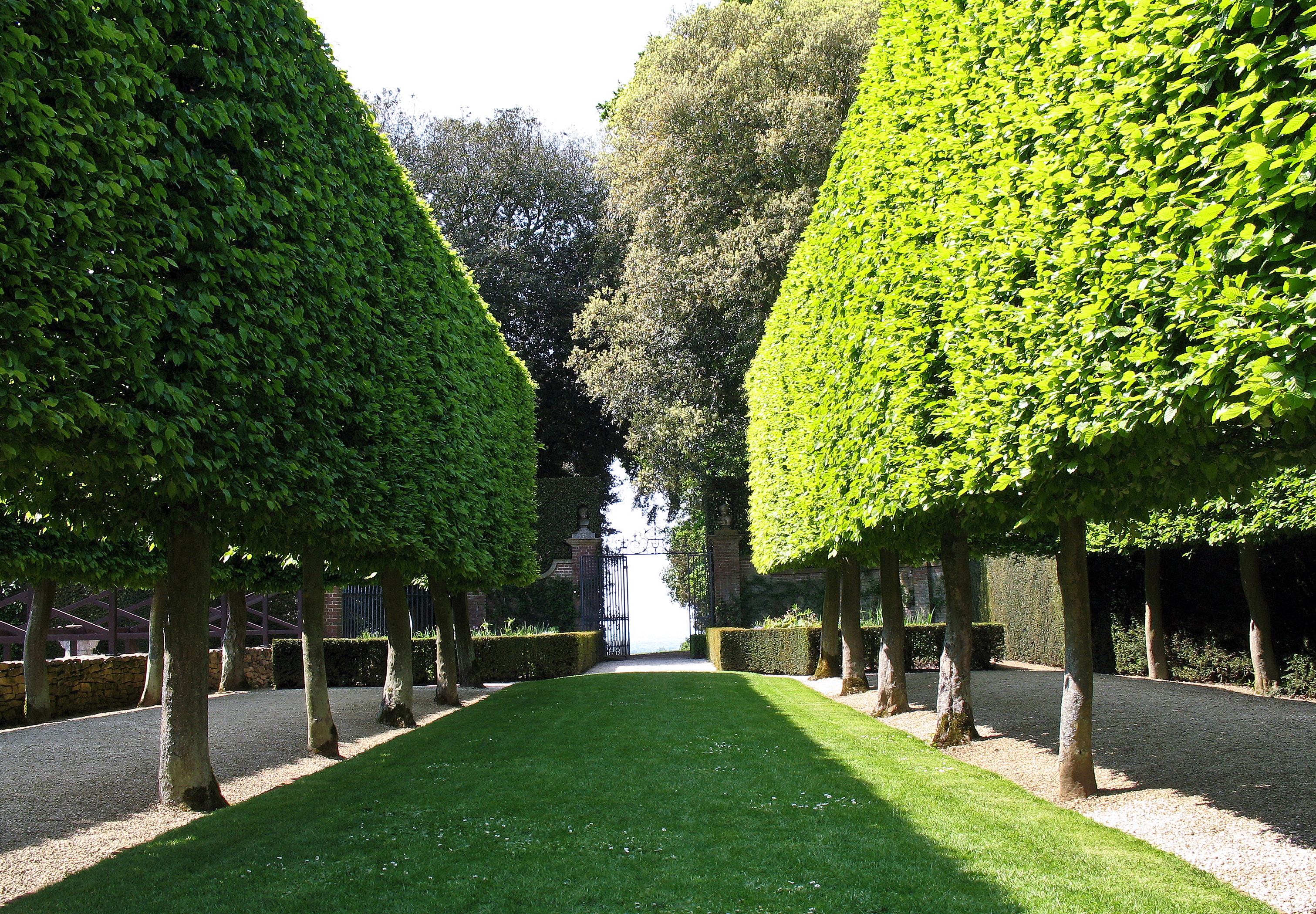 Stilt Garden, at Hidcote Manor